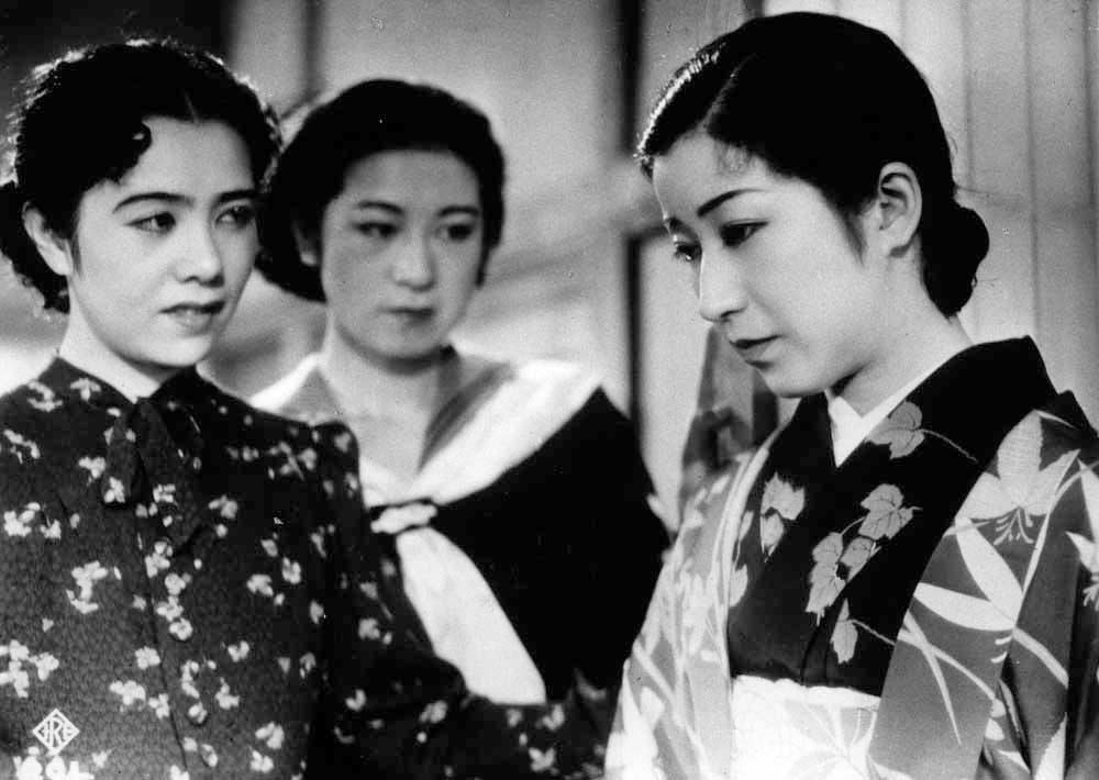 From left to right: Ranko Sawa, Reiko Minakami and Takako Irie in Nyonin aishū (女人哀愁) directed by Mikio Naruse - 1937